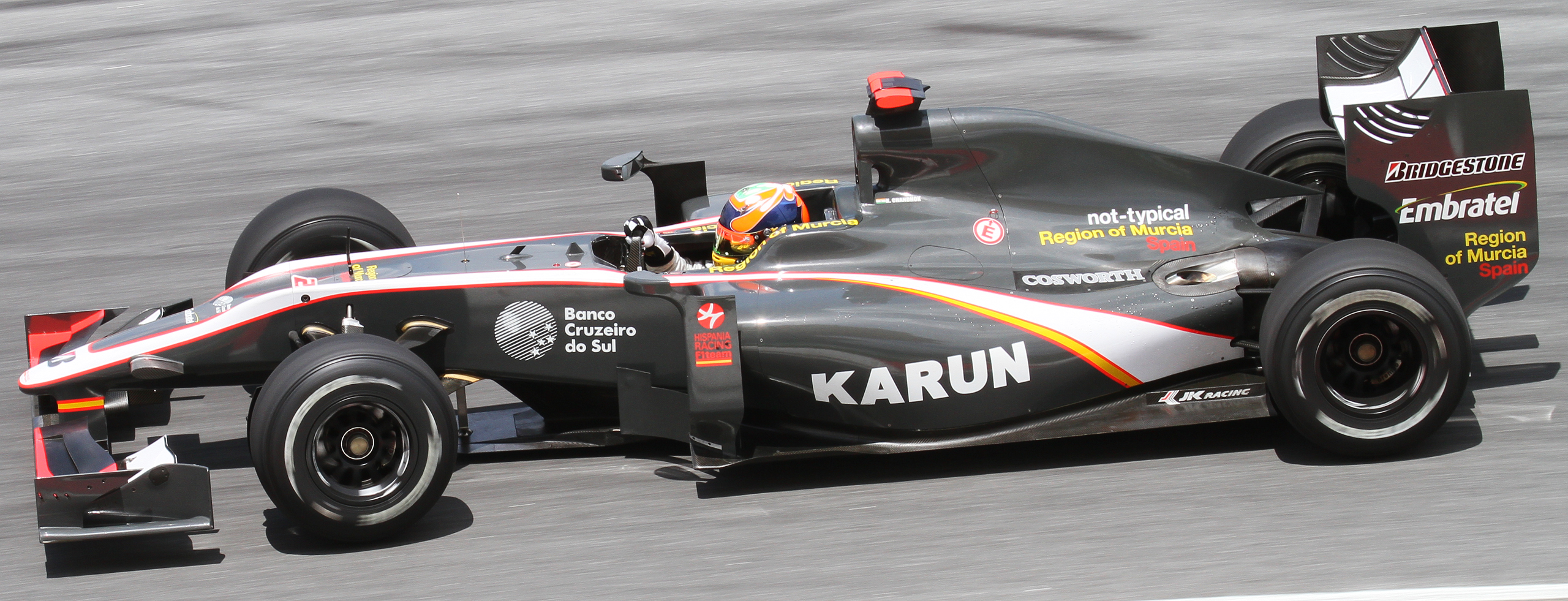 Formula One 2010 Rd.3 Malaysian GP: Karun Chandhok (Hispania Racing) during Friday 2nd Free Practice session.